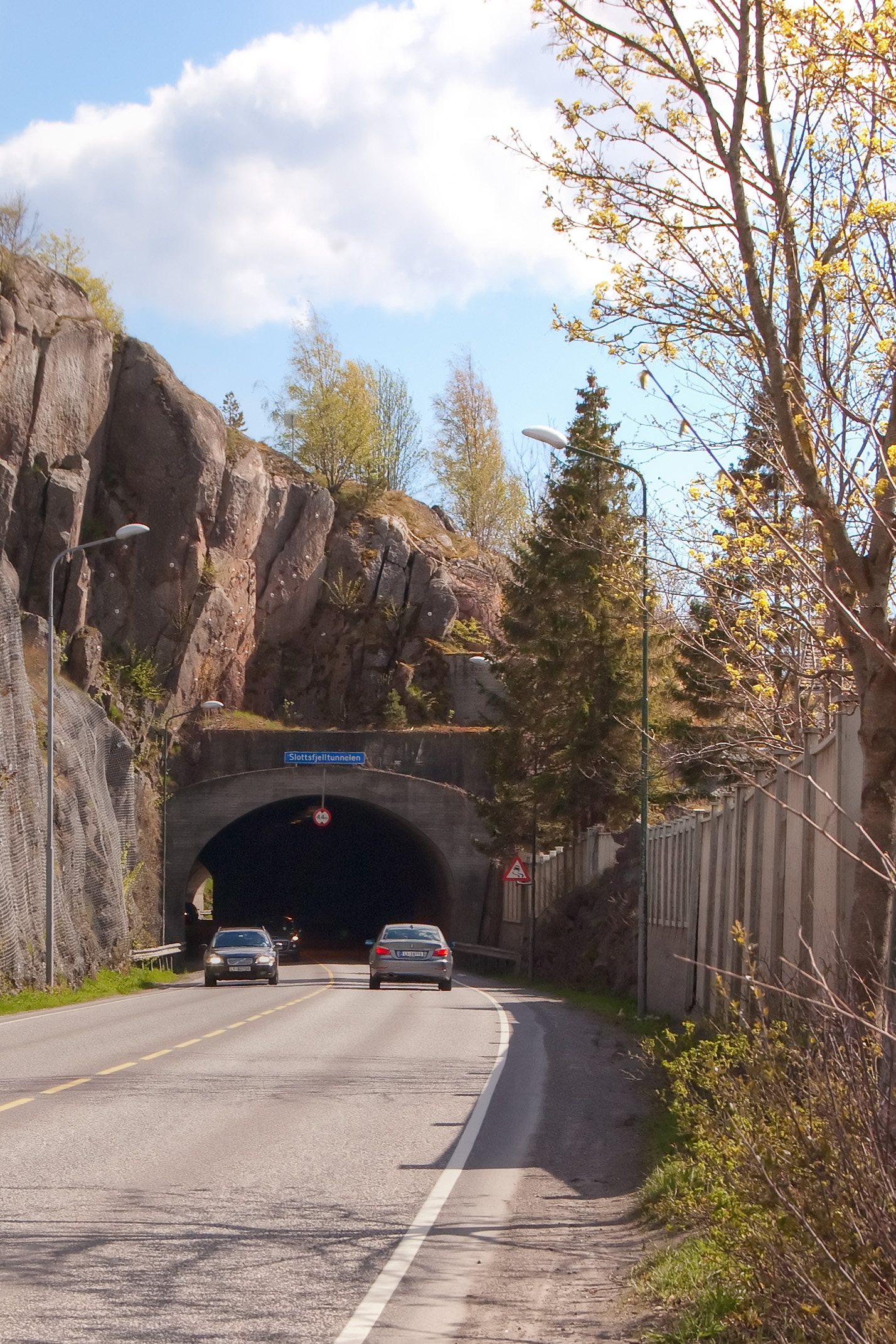 Slottsfjelltunnelen in Tønsberg, Norway